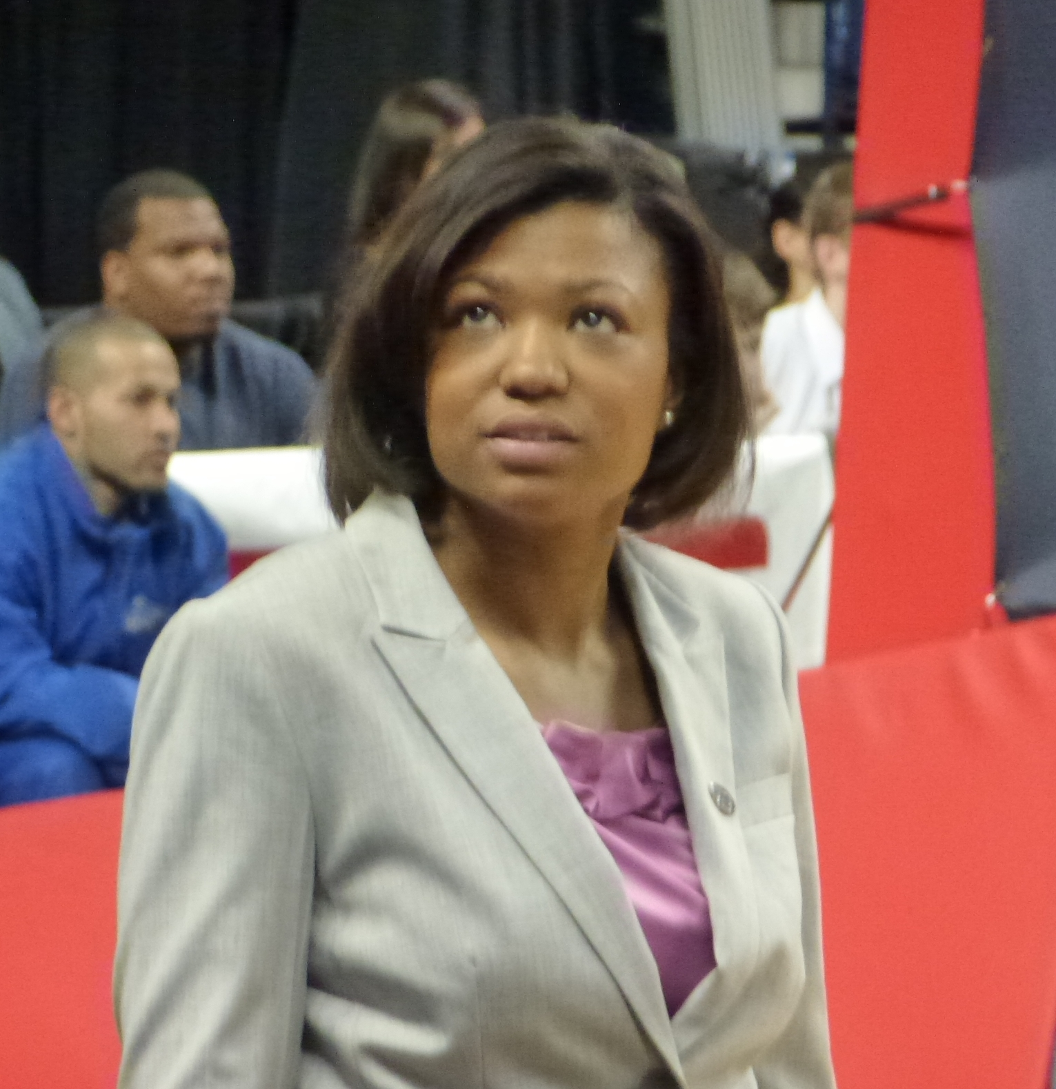 Toyelle Wilson Head Coach Womens basketball Prairie View A&M Taken at the NCAA Womens Basketball Tournament. First round games held at Webster Bank Arena in Bridgeport CT USA.